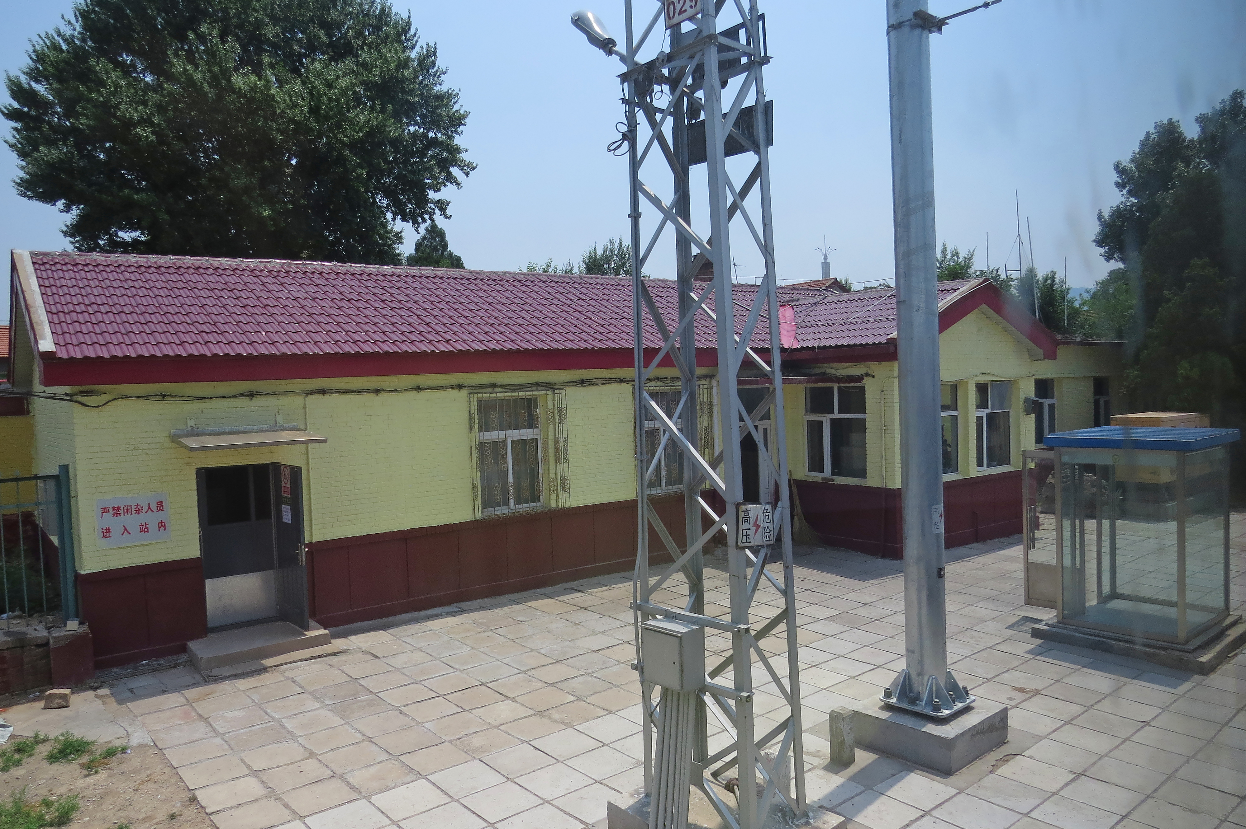 This is the second...